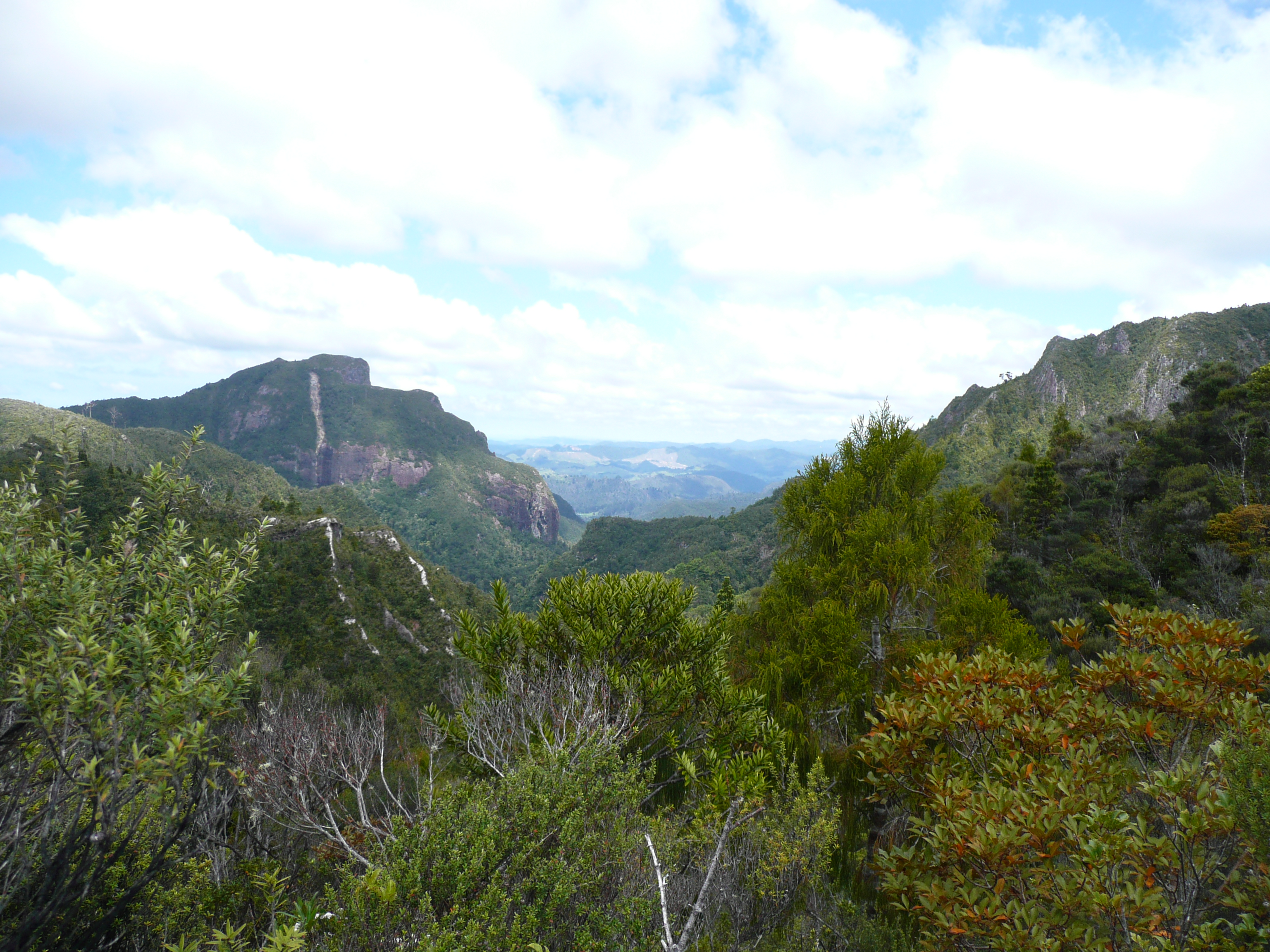 The view toward the north from the track up to the pinnacles hut, Kaueranga Valley, Coromandel, New Zealand